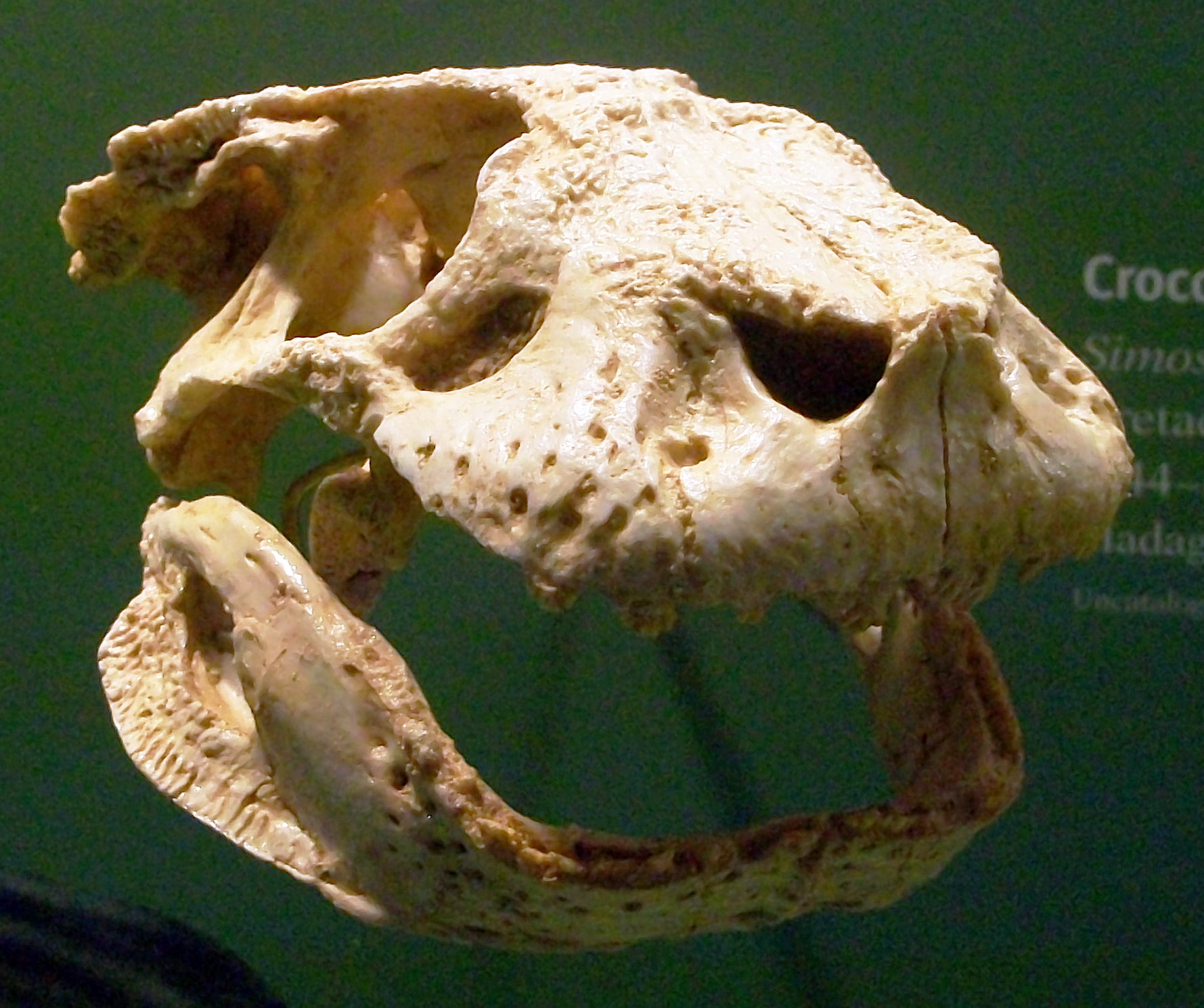 Cast of a skull of Simosuchus clarki in the Field Museum of Natural History.